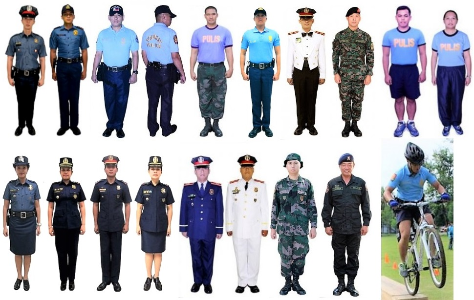 A collage of officers of the Philippine National Police wearing various uniforms.